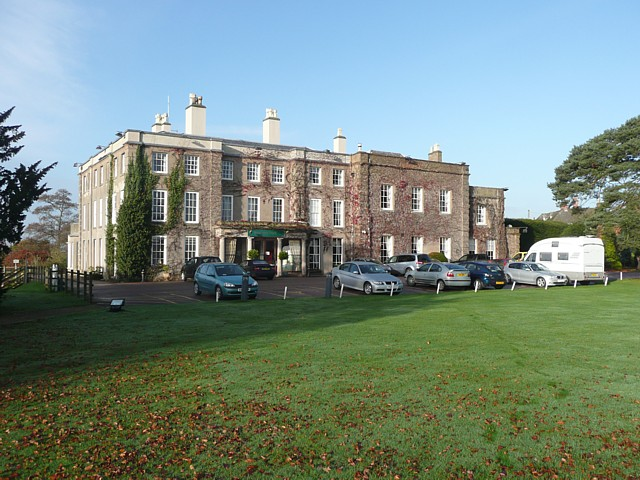 Wychnor Park, Burton-on-Trent, Staffordshire, longtime home of the Levett family.